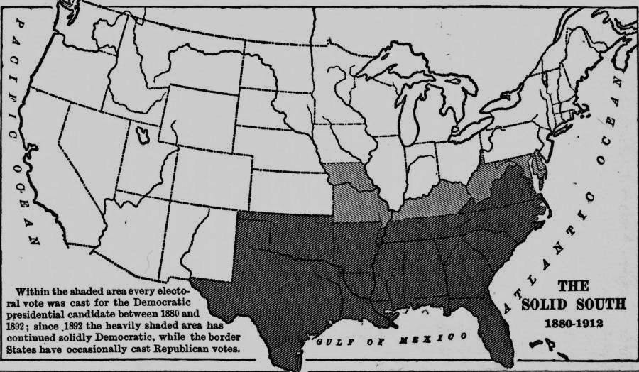 The U.S. political region known as the "Solid South" and the voting in presidential elections from 1880-1912.